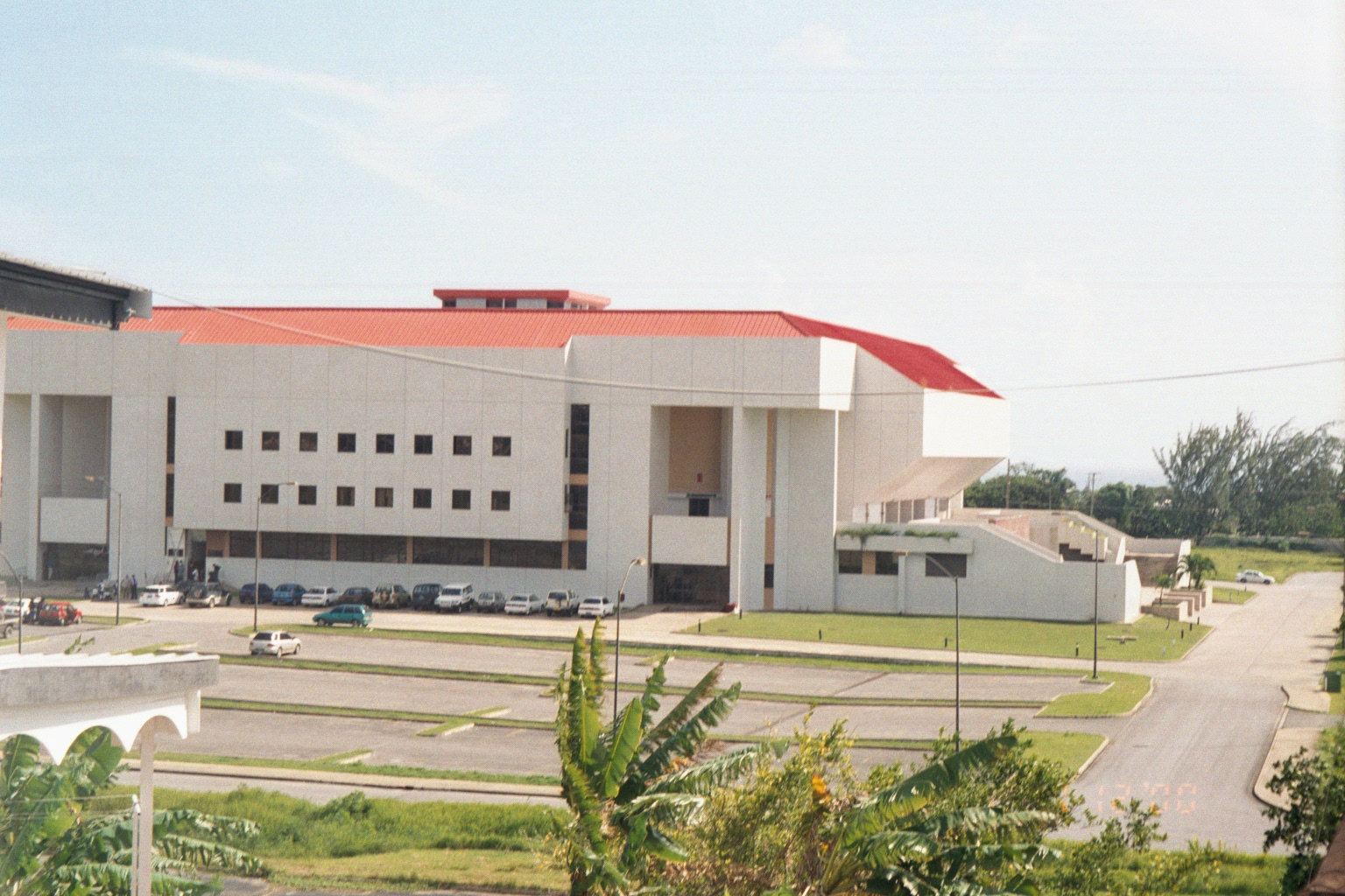 Photo of the Wildey Gymnasium in the area of Wildey, St. Michael in the country of Barbados. (c.a. November 2000)